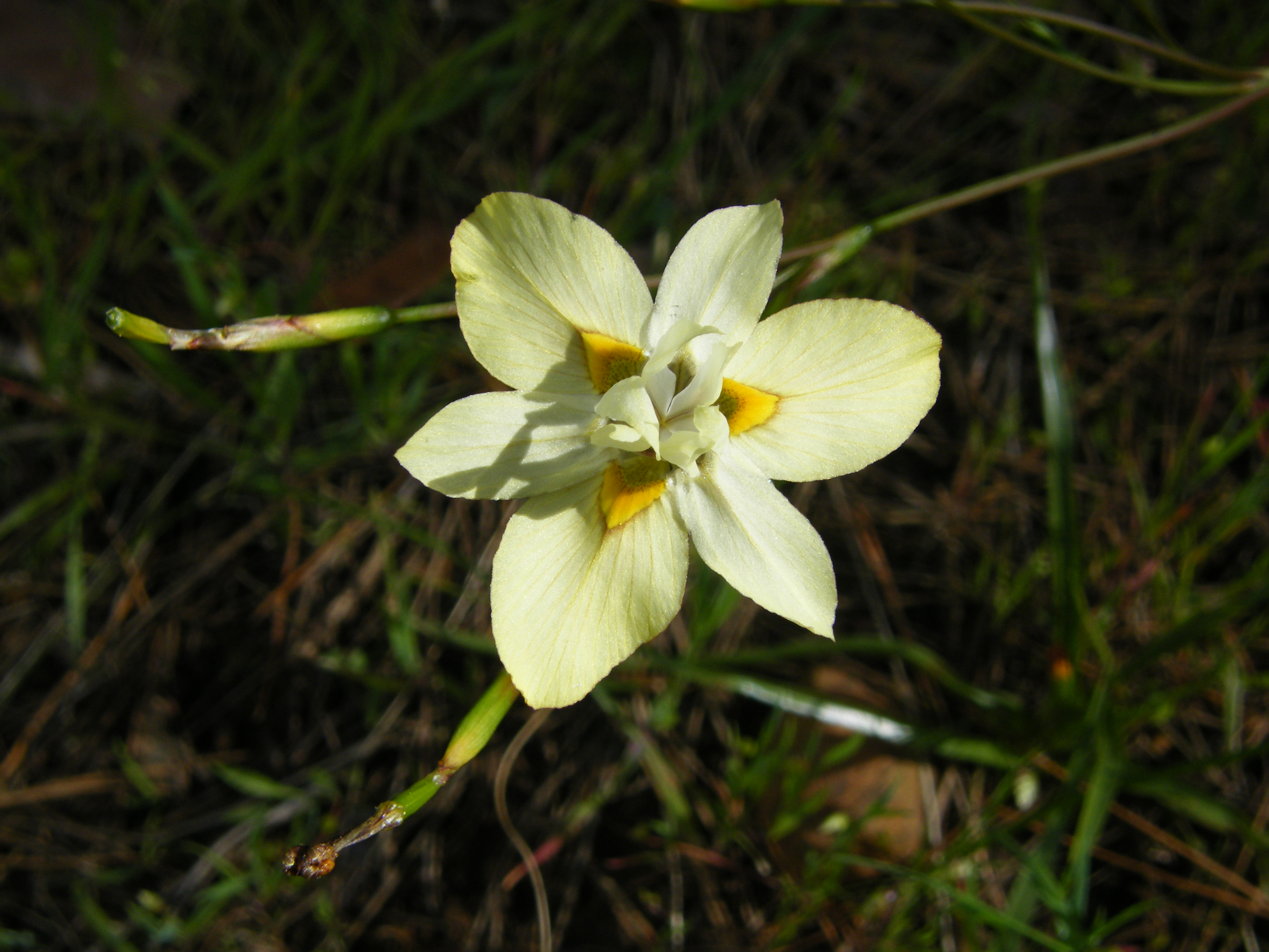 Moraea gawleri yellow form